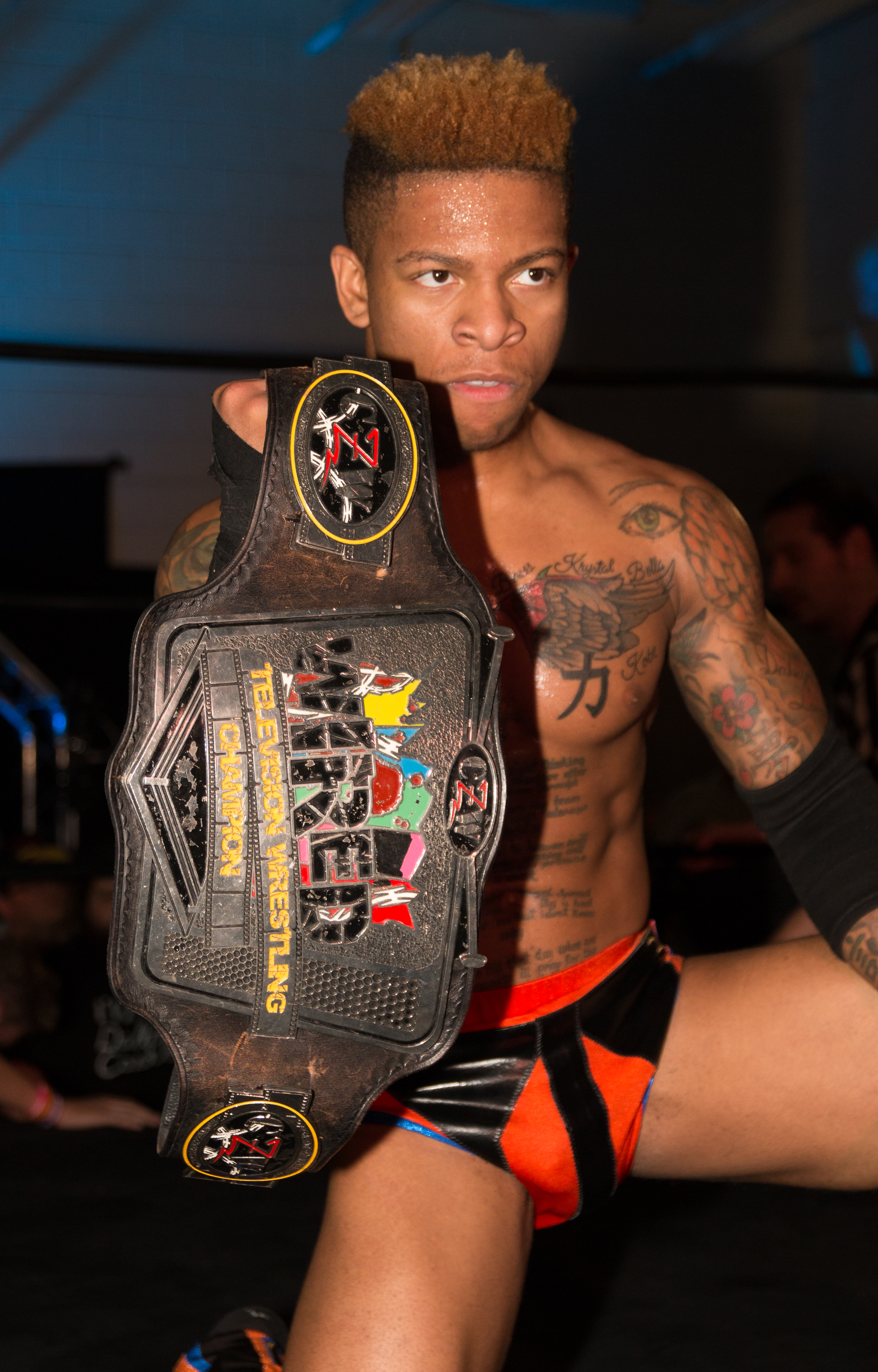 Independent wrestler Lio Rush with the CZW Wired Championship belt. Photo taken at a Smash Wrestling show in Etobicoke, ON